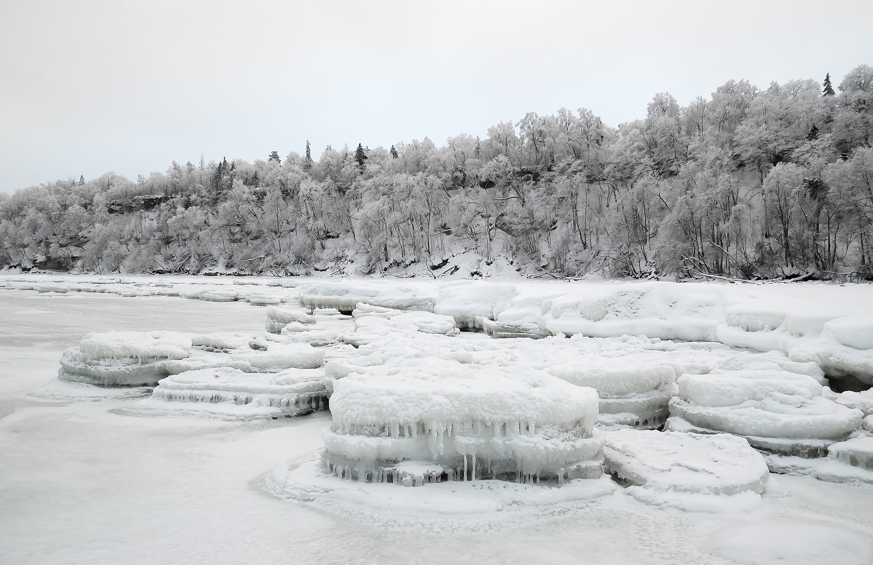 Tabasalu cliff in Harku Parish, Estonia.